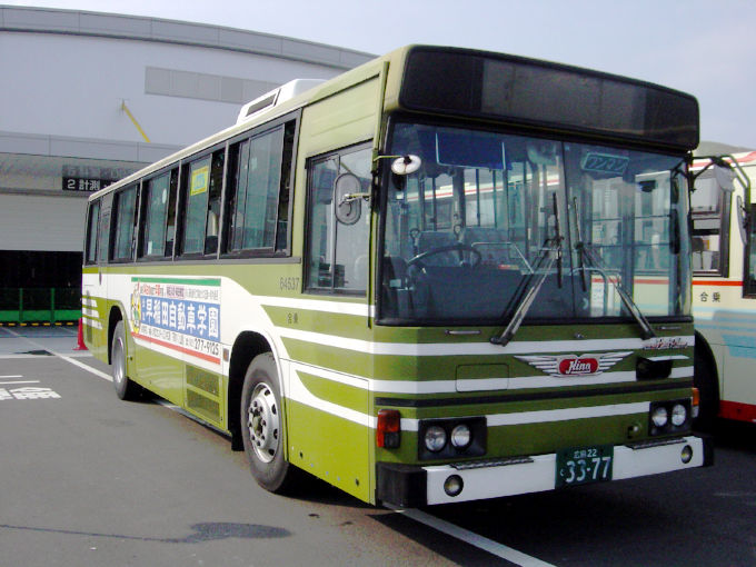 from ja.wikipedia